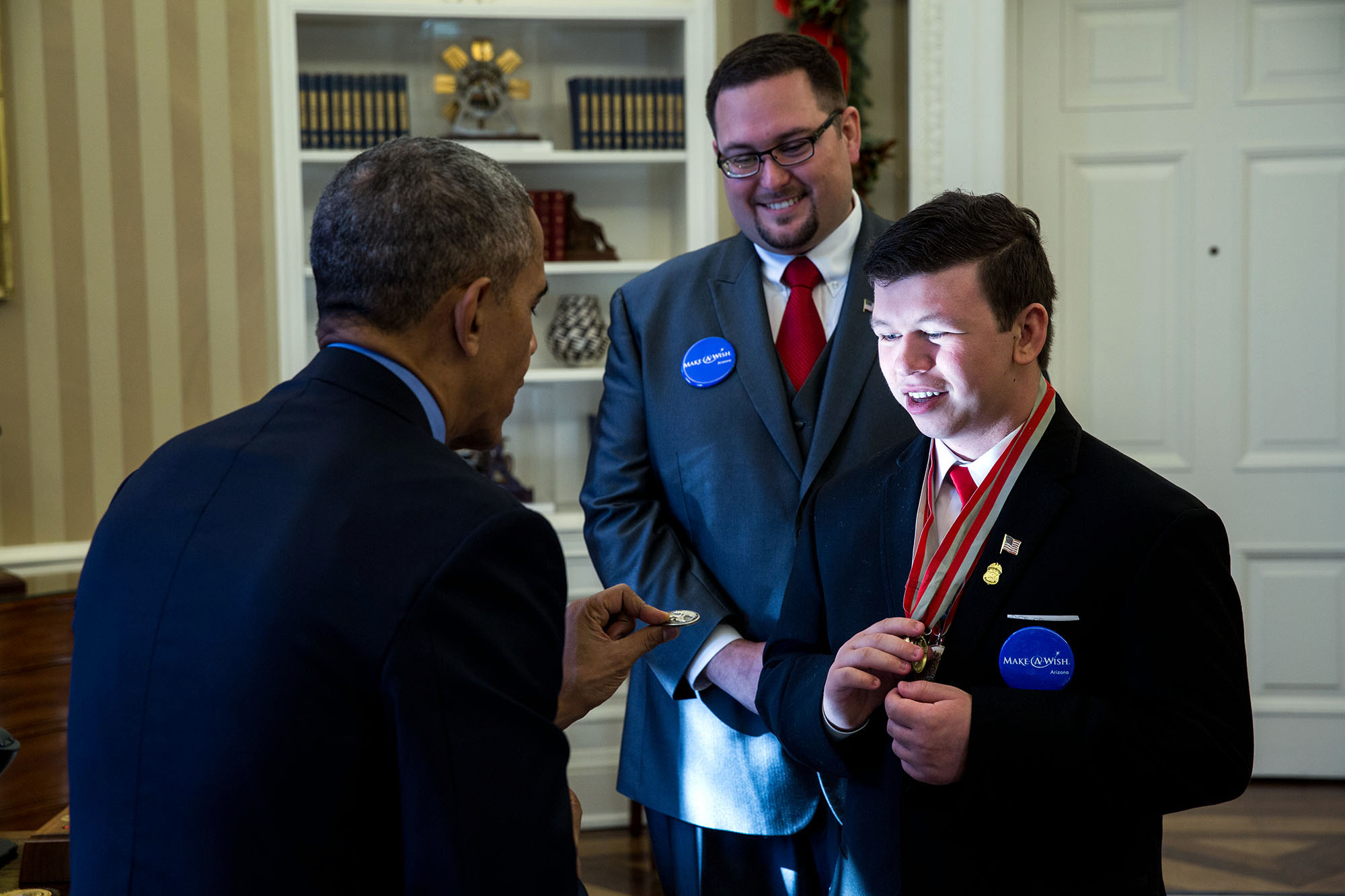 President Barack Obama gives a personal Presidential coin to Nick Wetzel, 15-year-old Make-A-Wish recipient from Peoria, Ariz., during a visit in the Oval Office, Dec. 9, 2016. Nick was accompanied by his brother Stephan, shown, mother Nancy Wetzel and his brother Gregory. (Official White House Photo by Pete Souza)